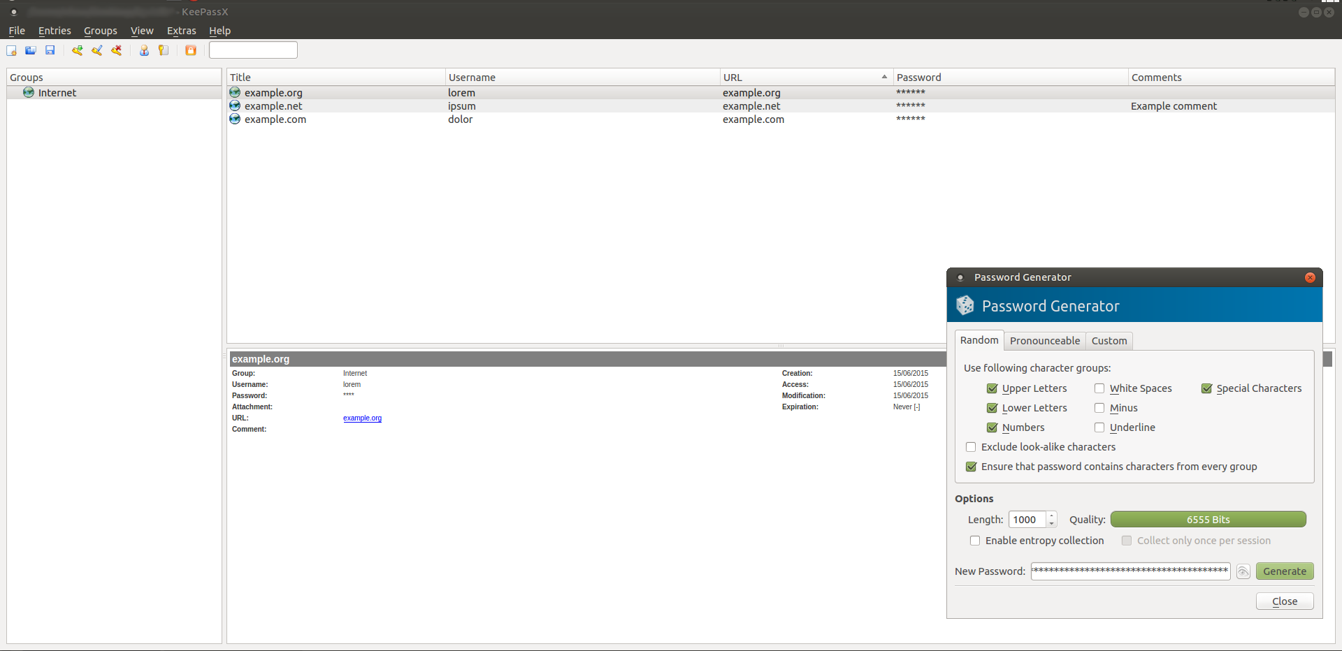 A screenshot of KeePassX 0.4.3 running under Ubuntu MATE